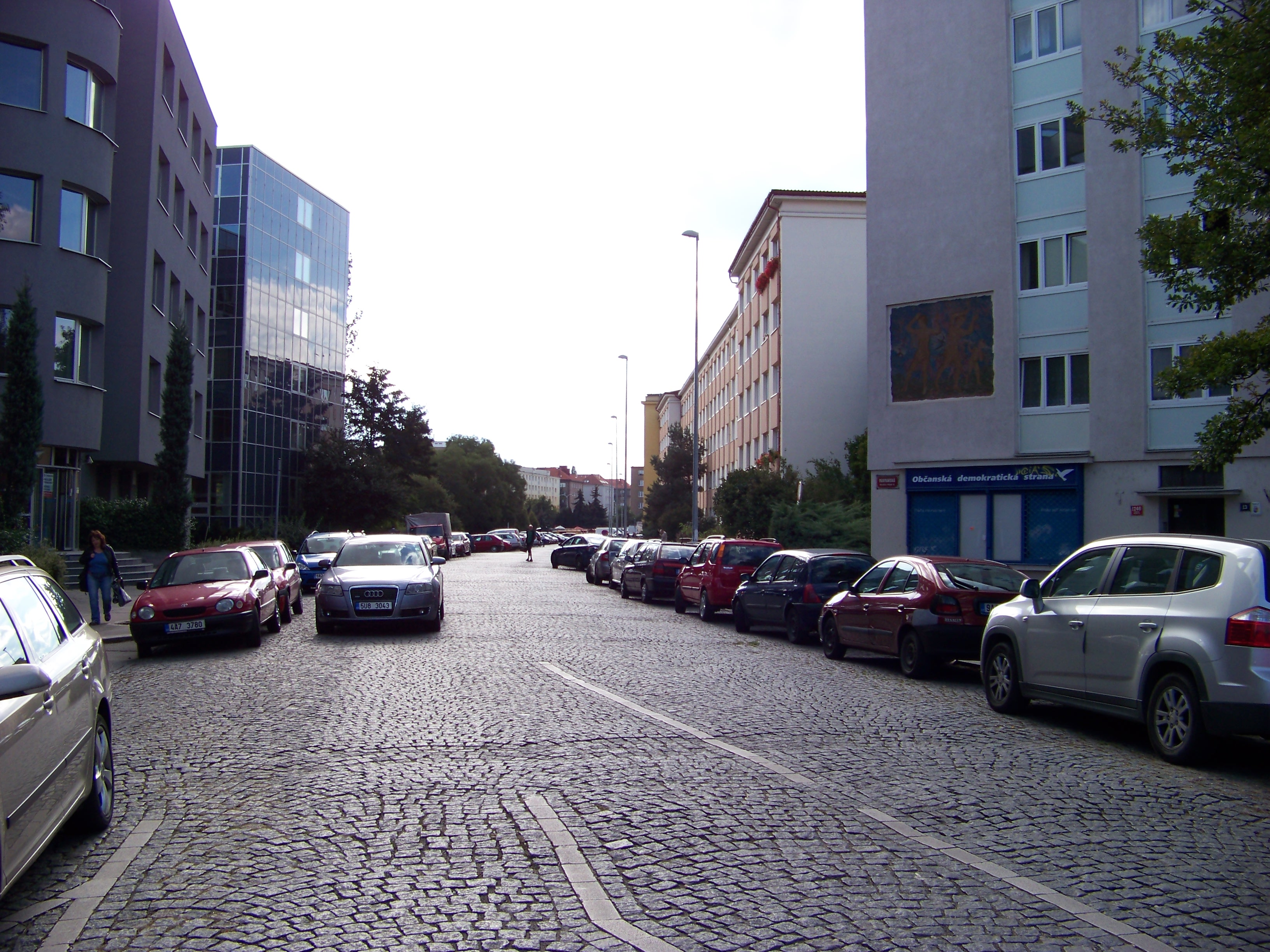 Prague-Vršovice, the Czech Republic. Murmanská street.